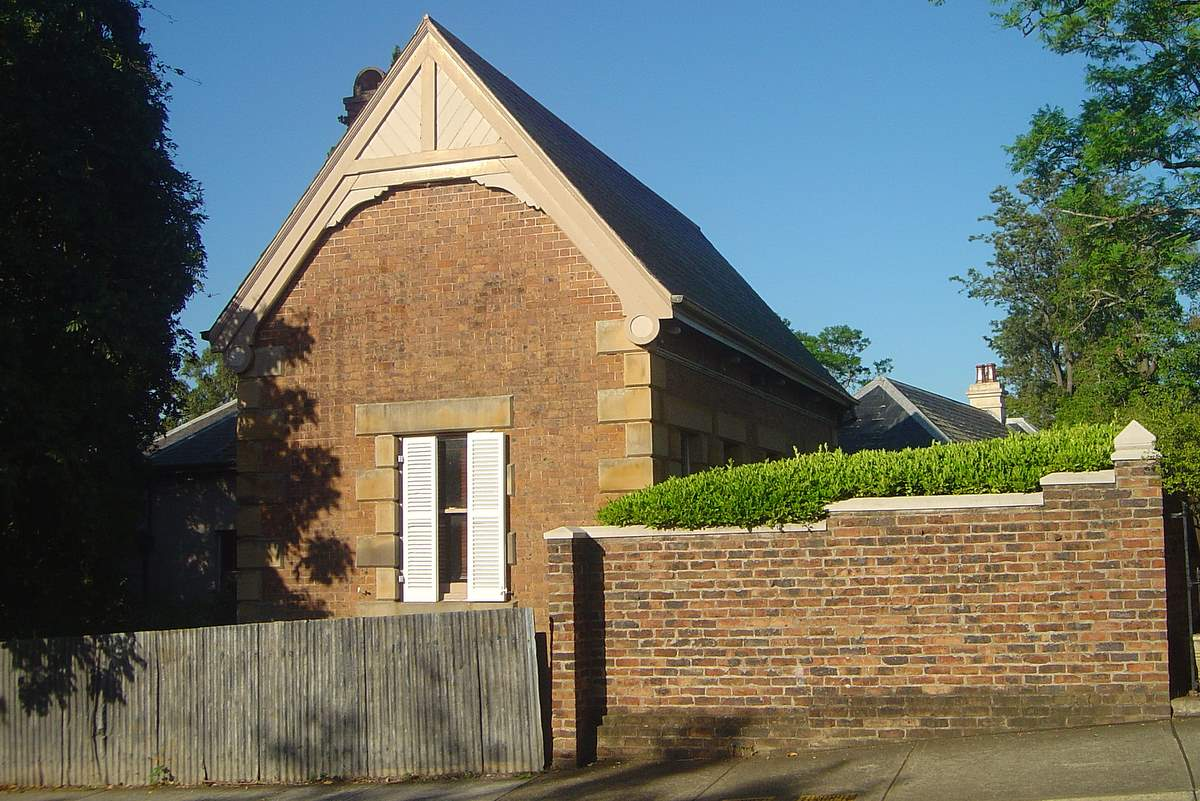 An Old House in Windsor.